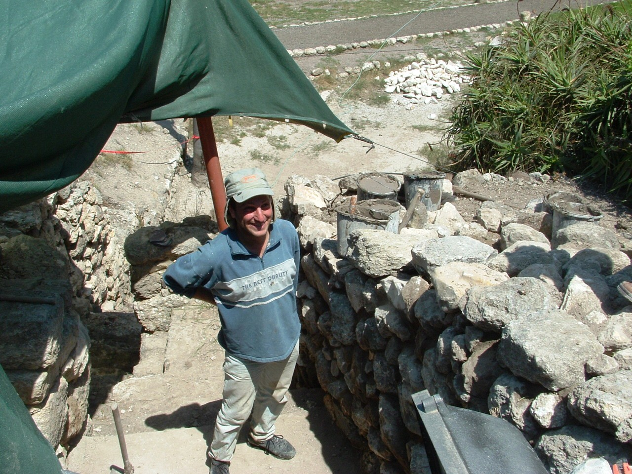 Tell Megiddo, Israel– Preservation with modern technique Ca 2006